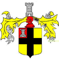 Coat of Arms, Fériet, Famille Le Clerc, Nancy, Lorraine